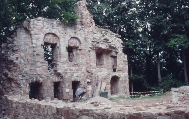 The ruins of the Palas of the Krayenburg castle.